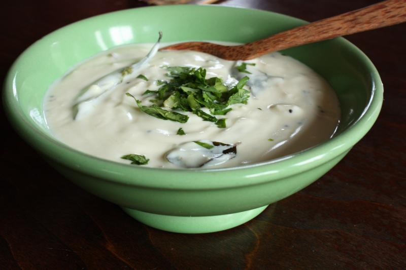 Raita- A coalesce of Curd/Yogurt, Salad (Onion, Tomatoe, Skinless green cucumber), Ginger, Mint leaves-chopped, Curry leaves